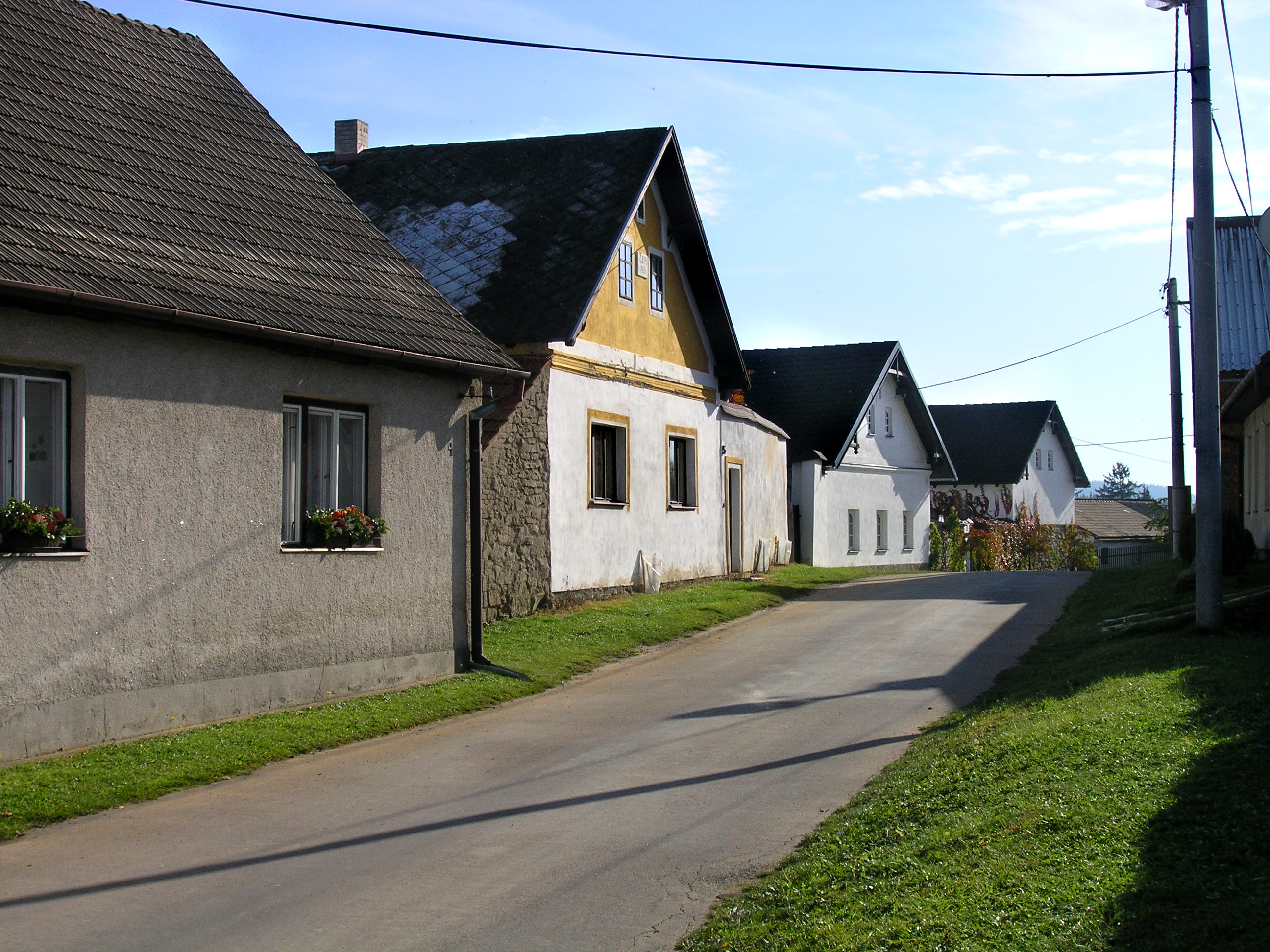 Rounek, part of Vyskytná nad Jihlavou, Czech Republic